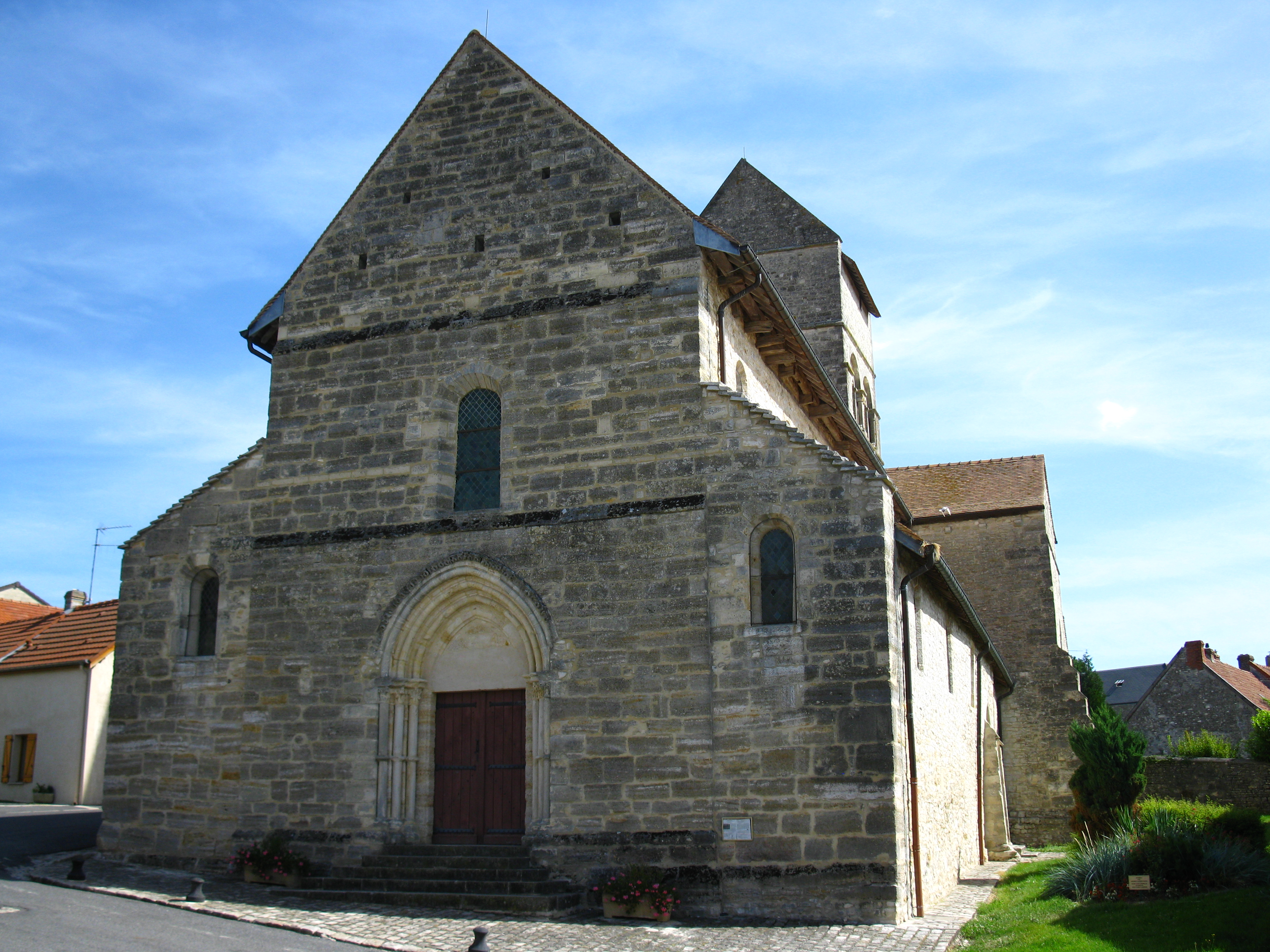 West side of the Saint-Laurent church, in Ville-en-Tardenois (France, 51)